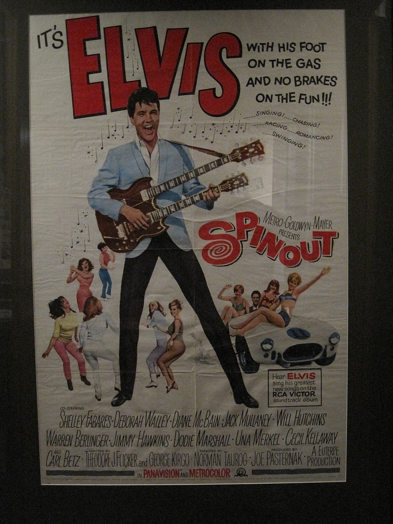 Graceland, Memphis, Tennessee. Poster